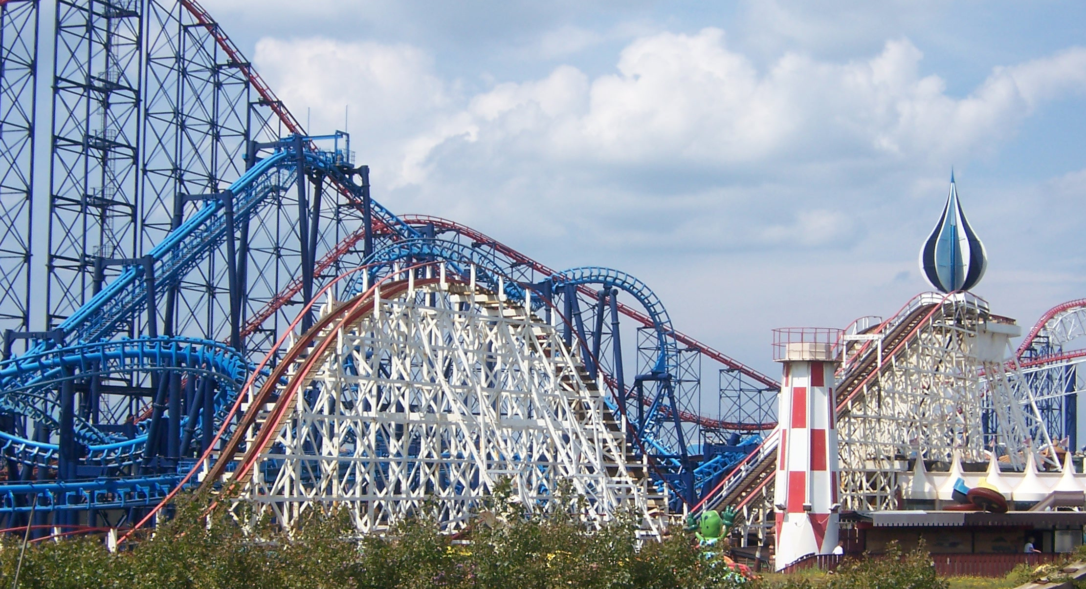 Part of the Big Dipper with Infusion behind it and the Pepsi Max Big One dwarfing both of them in the background